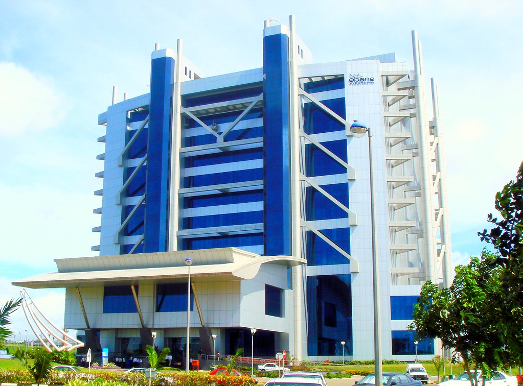 Picure of the Shri Atal Bihari Vajpayee Tower